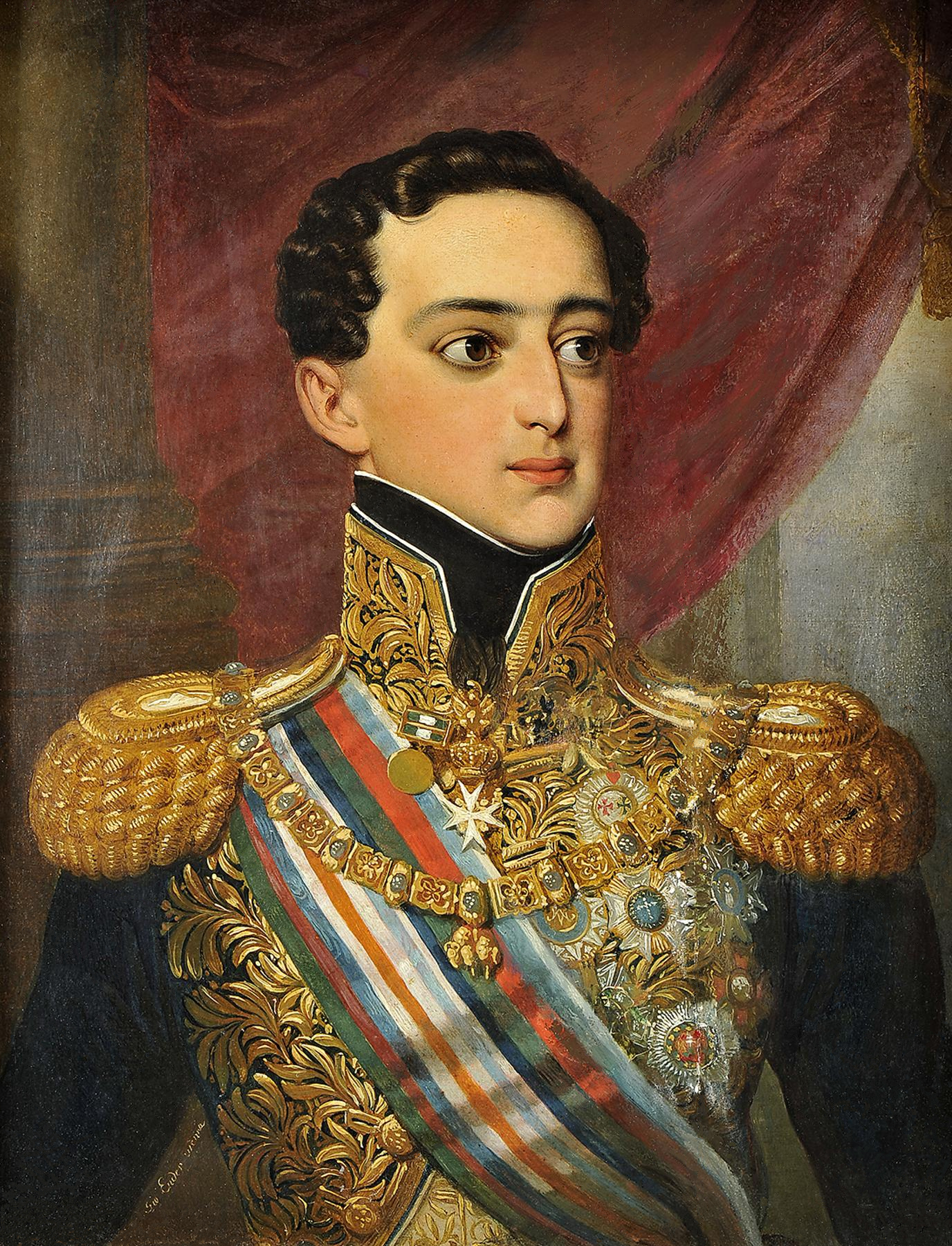 Portrait of King Michael I of Portugal, by Johann Nepomuk Ender.